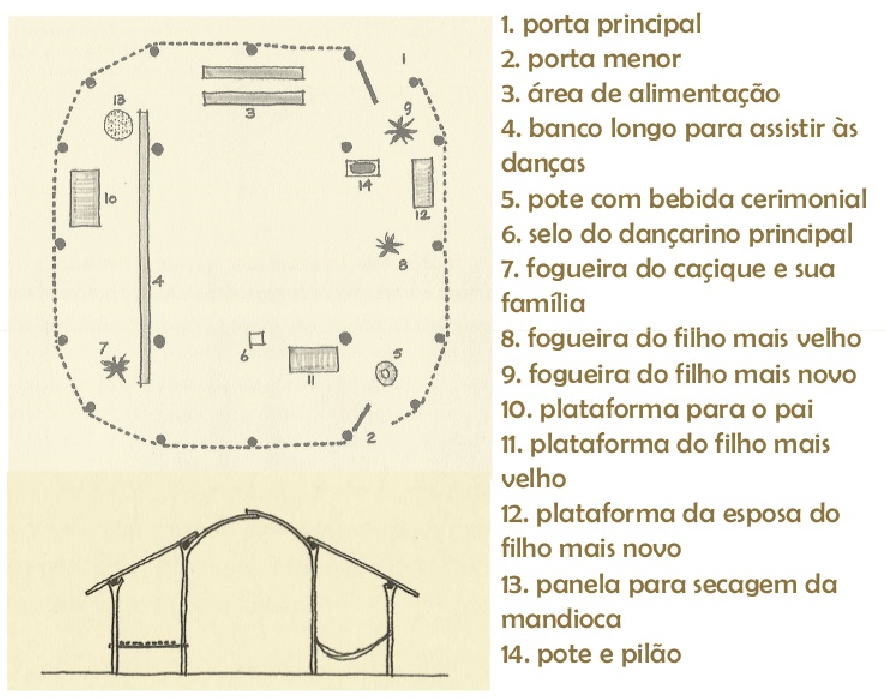 Centor de atividade maloqueira